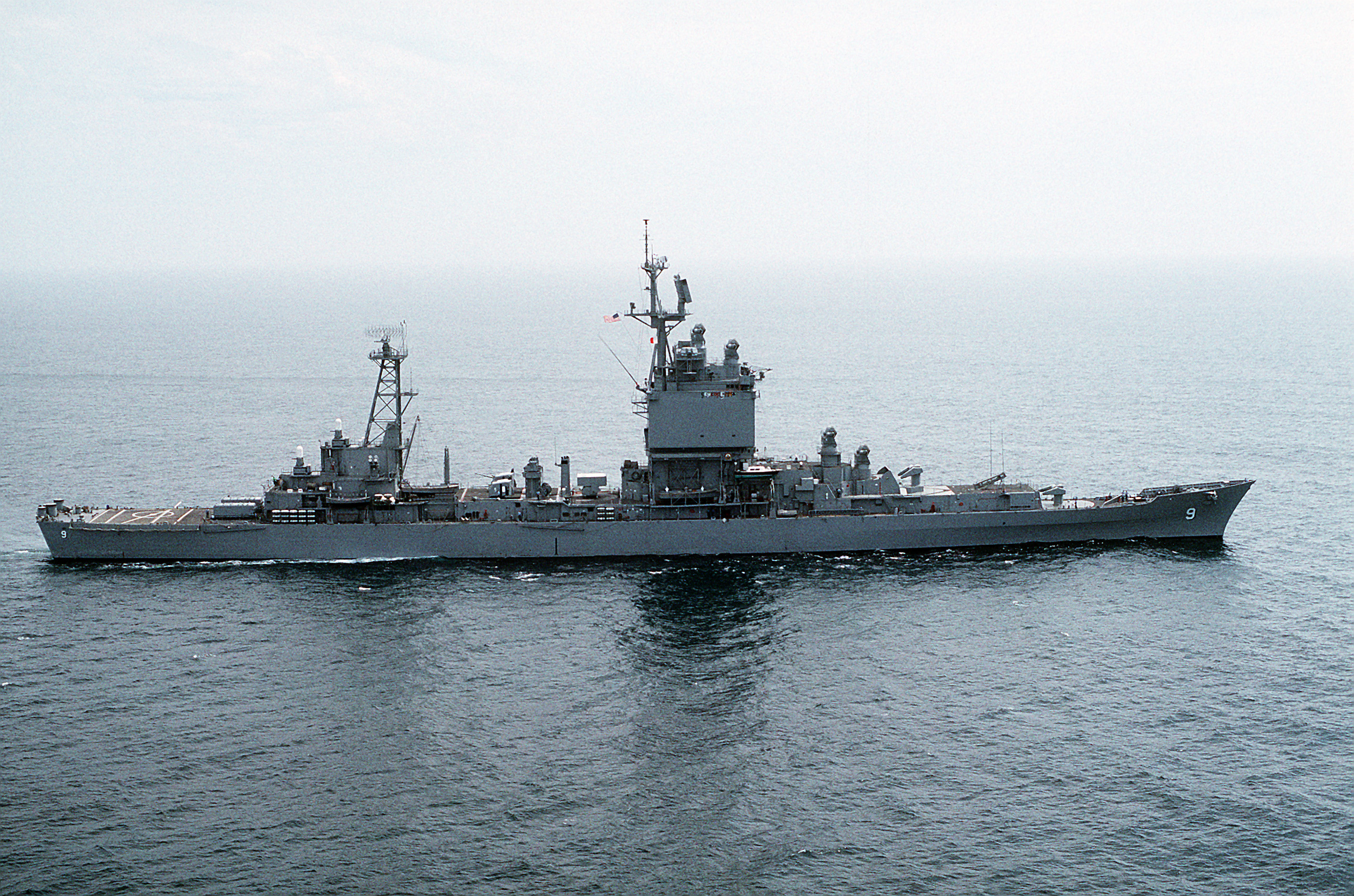 A starboard beam view of the U.S. Navy nuclear-powered guided missile cruiser USS Long Beach (CGN-9) underway near the coast of Southern California (USA).